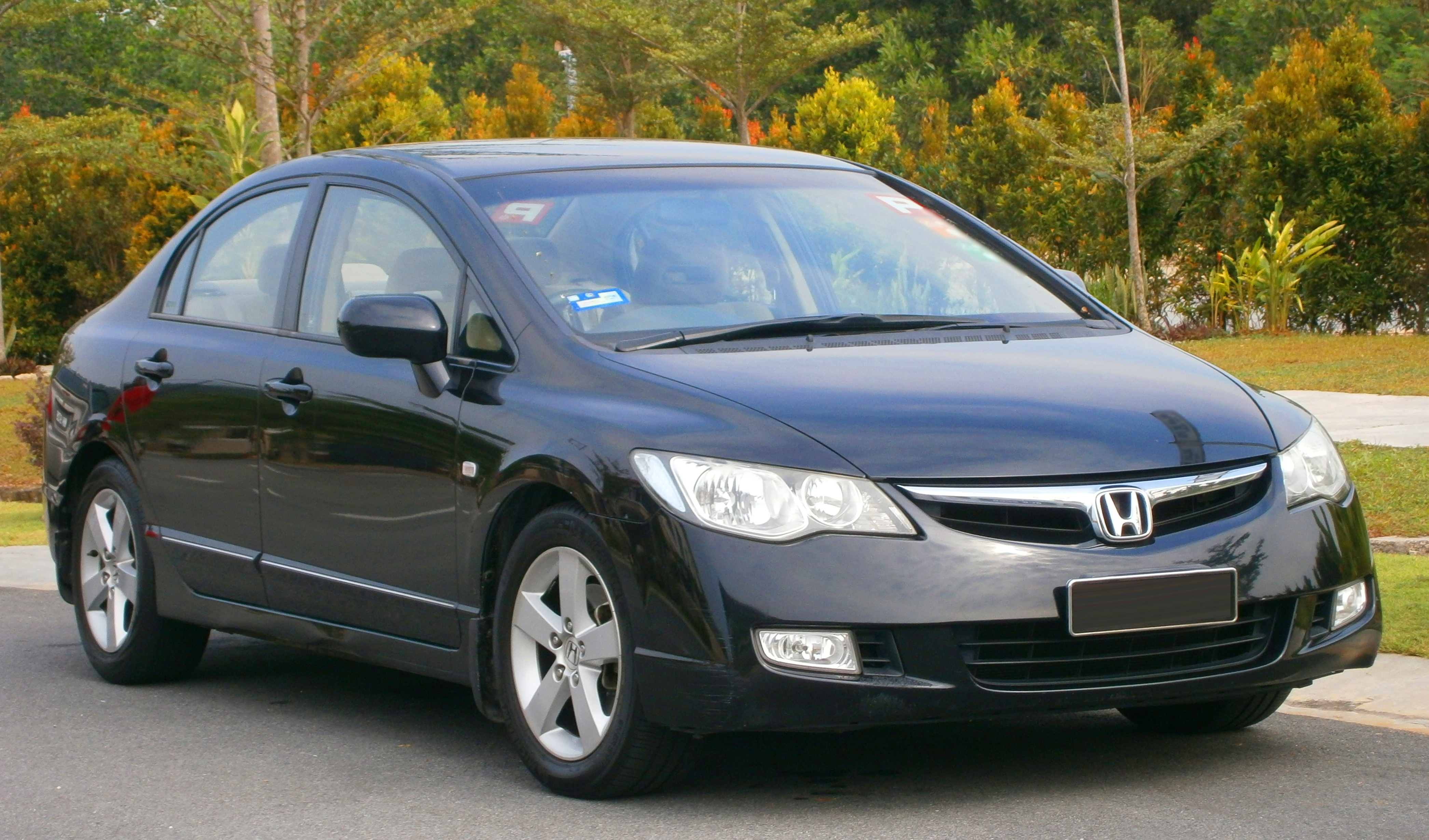 2007 Honda Civic 1.8S saloon in Puchong, Malaysia. Designed in Japan , Assembled in Malaysia